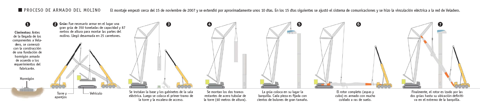 Diagram of construction of a DeWind D8.2 HE 2MW wind turbine at the Veladero mine of Barrick Gold, San Juan Province, Argentina